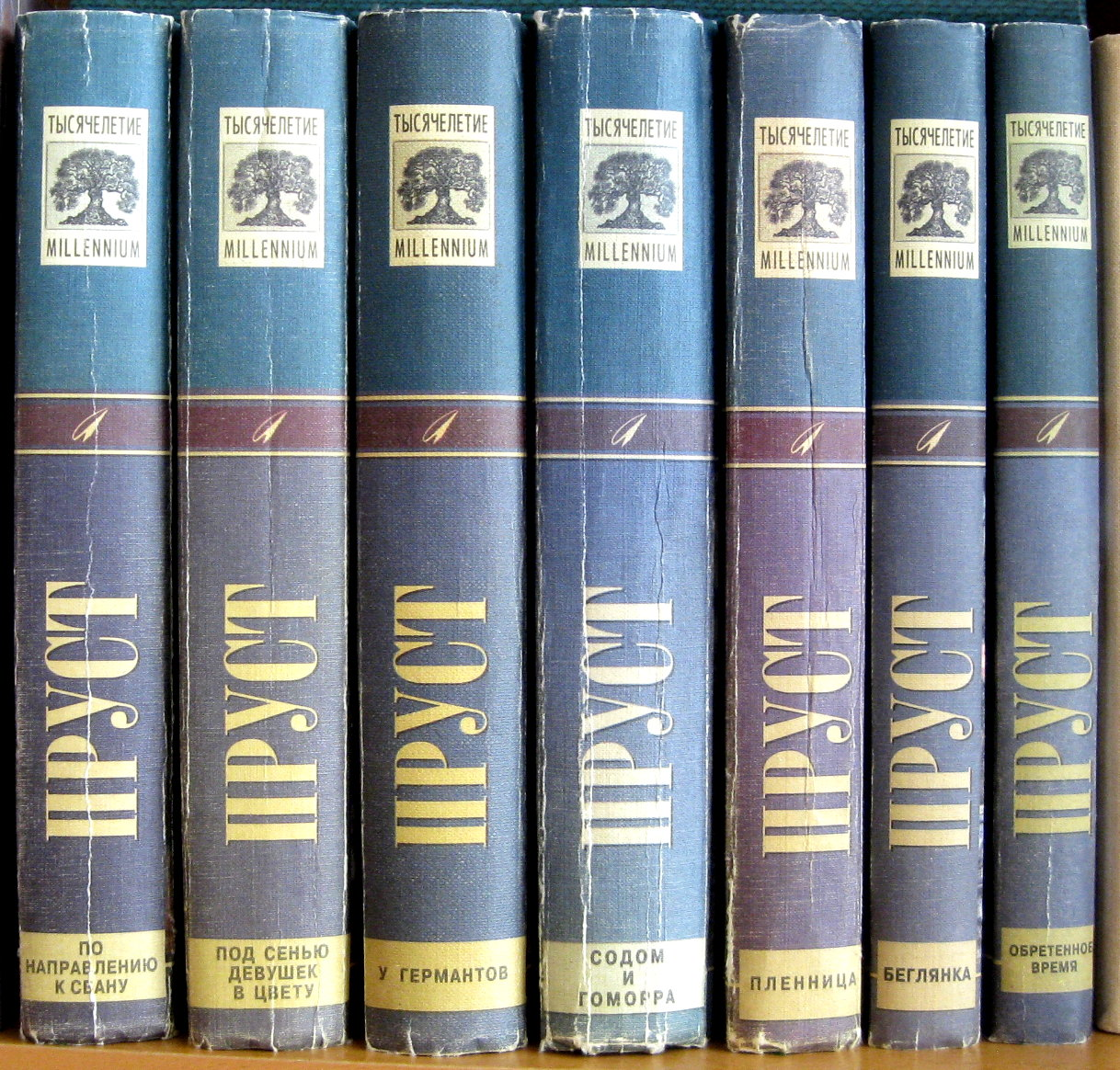 The first full Russian-language edition of the novel by Marcel Proust, “In Search of Lost Time”. St. Petersburg, Amphora Publishing House, 1999-2001